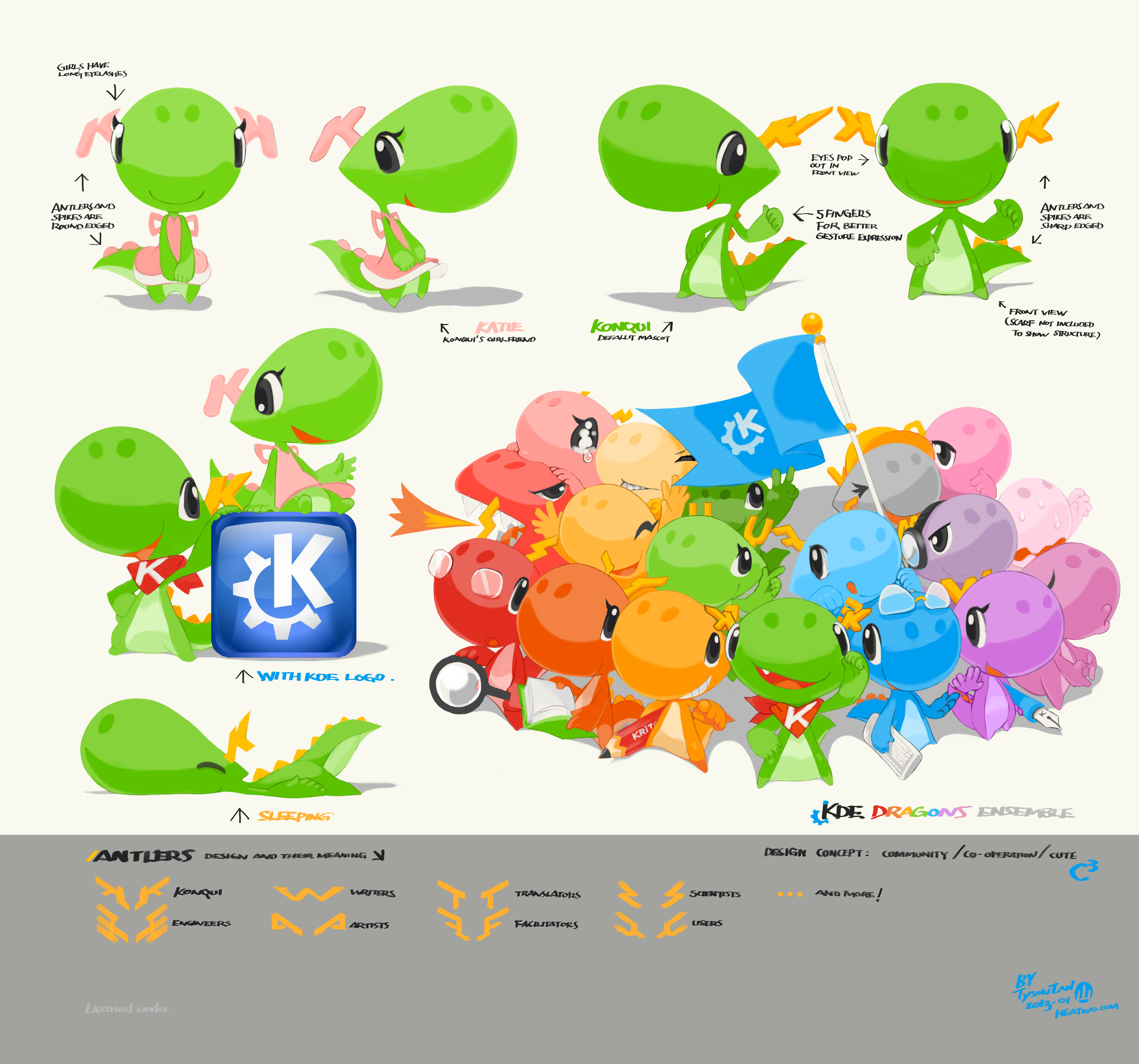 Tyson Tan's original entry of Konqi redesign contest.